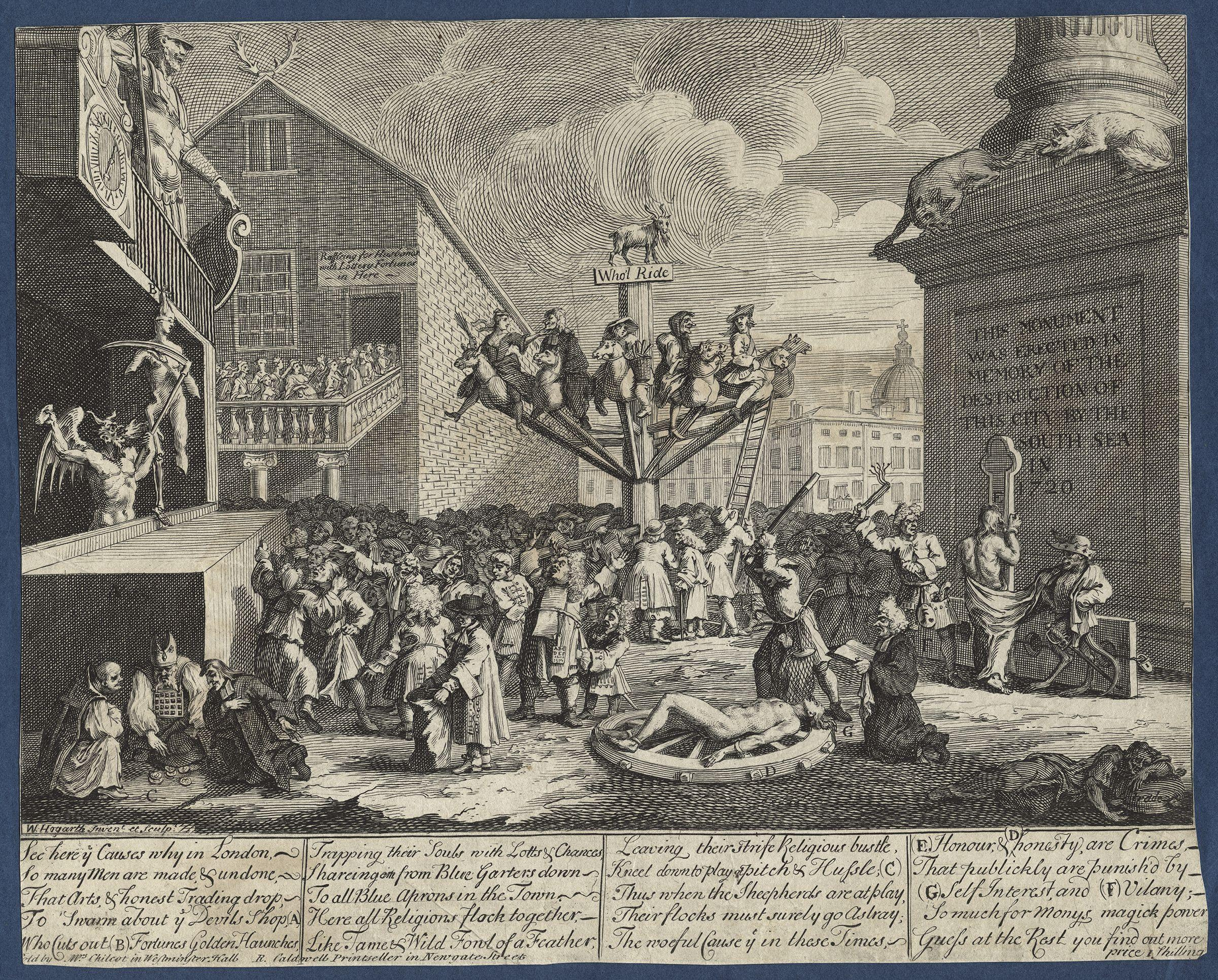 The South Sea Scheme, by William Hogarth (died 1764). All images in this batch have been confirmed as author died before 1939 according to the official death date listed by the NPG.